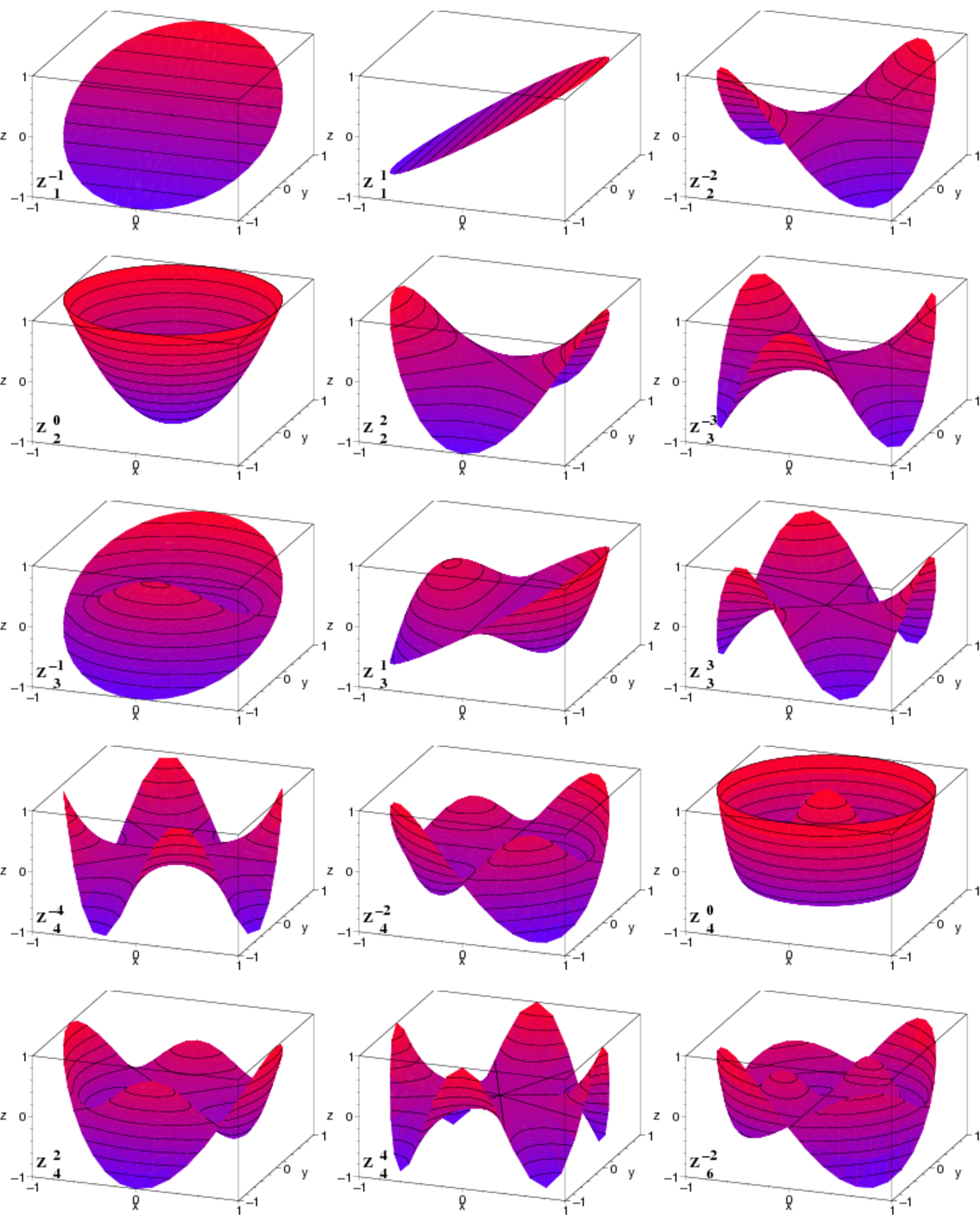 Zernike Polynomials up to fourth order and one example of sixth order. According to Noll's indexing scheme the alternative Nomenclature is Z(0,0)=Z(1), Z(1,1)=Z(2), Z(1,-1)=Z(3), Z(2,0)=Z(4), Z(2,-2)=Z(5), Z(2,2)=Z(6), ... , Z(4,-4)=Z(15), ..., Z(5,5)=Z(20), Z(5,-5)=Z(21), Z(6,0)=Z(22), Z(6,2)=Z(24), Z(6,-2)=Z(23), Z(6,4)=Z(26), Z(6,-4)=Z(25), Z(6,6)=Z(28), Z(6,-6)=Z(27), ...